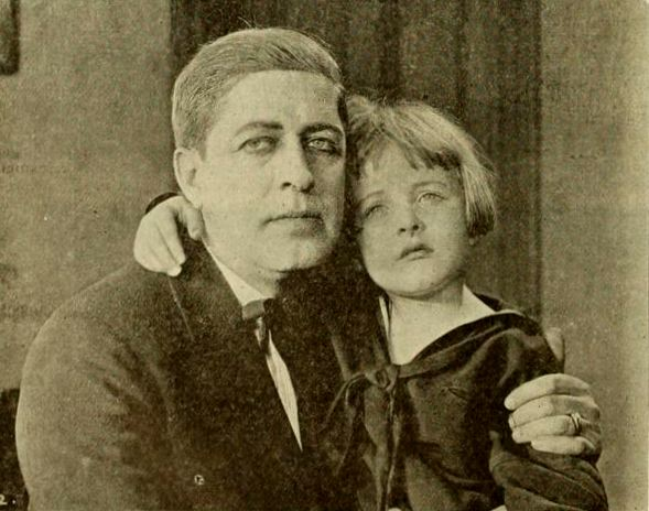 Still from the American film The Mayor of Filbert (1919) with Jack Richardson and Ben Alexander, on page 1142 of the May 24, 1919 Moving Picture World.